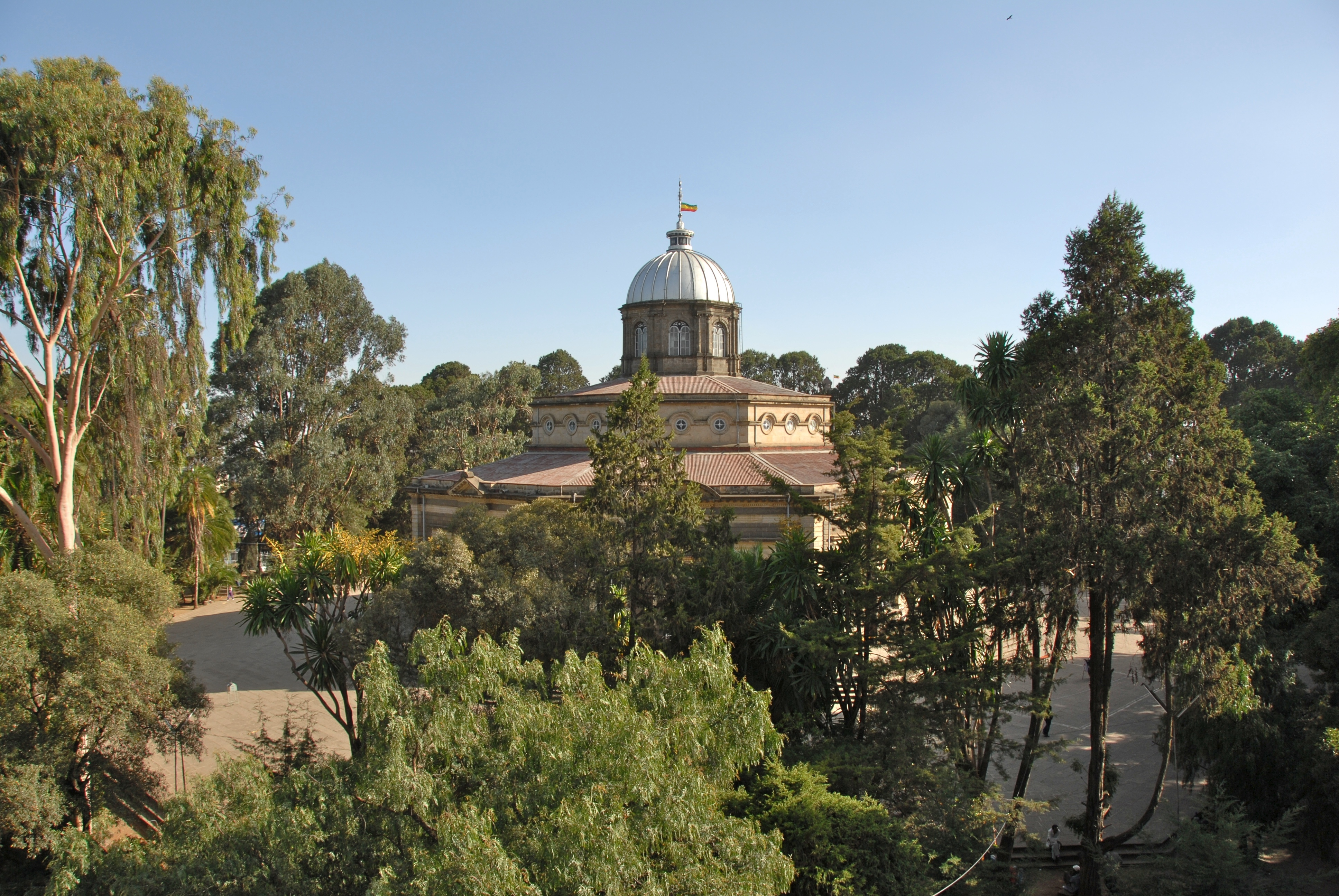 St. George's Cathedral